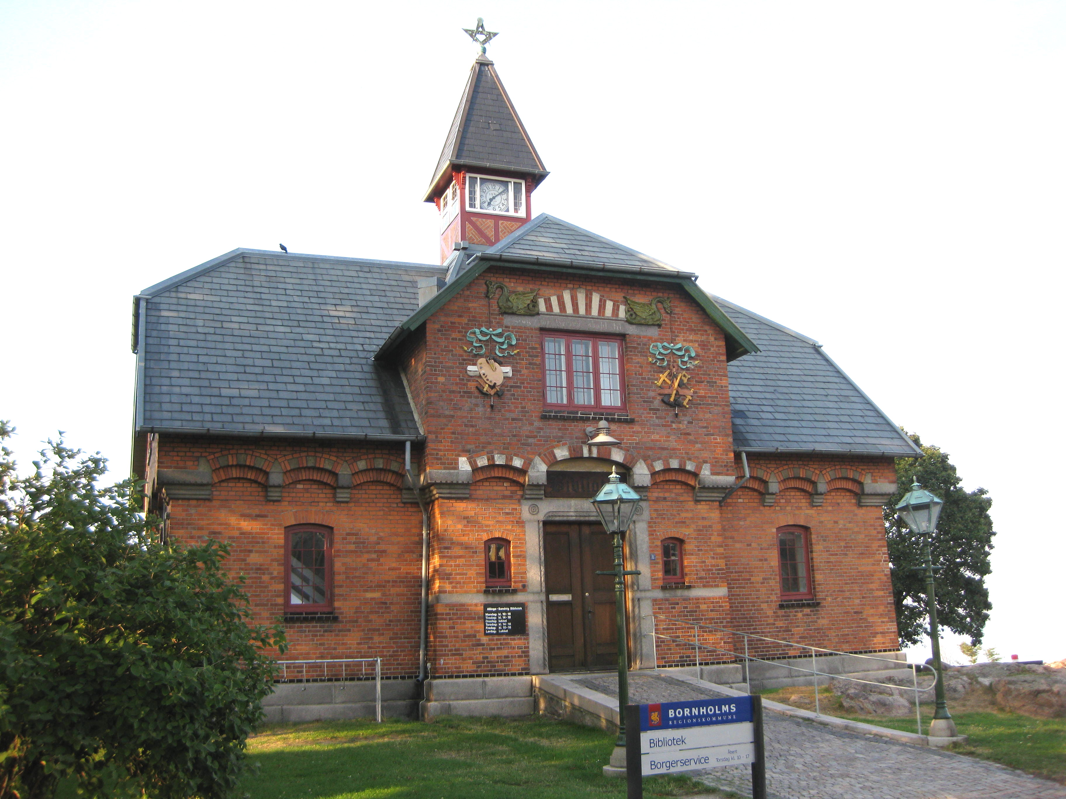 The library and citizen centre of the small town "Allinge-Sandvig". The town is located on the island Bornholm in east Denmark.